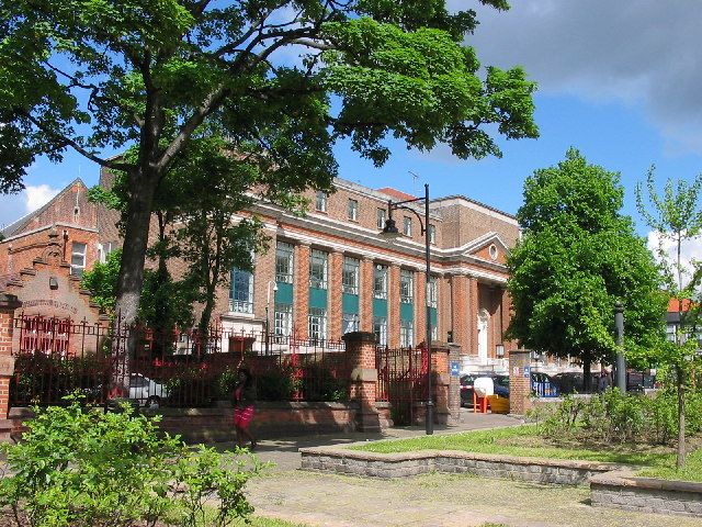 The College of North East London. Known as CONEL